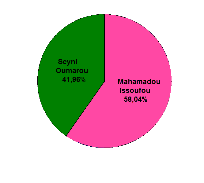 Results of second round's presidential elections in Niger, 12th March 2011.